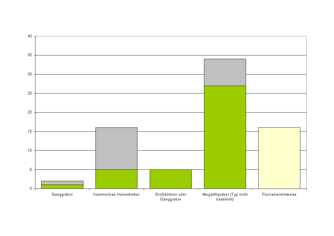 Types of megalithic tombs of the East Elbian Group